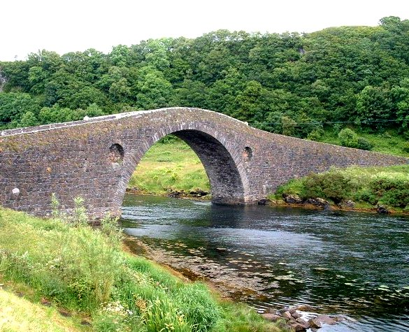 The Clachan Bridge. Linking Argyll on the Scottish mainland with Seil Island.